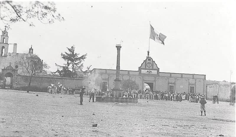 dominio publico